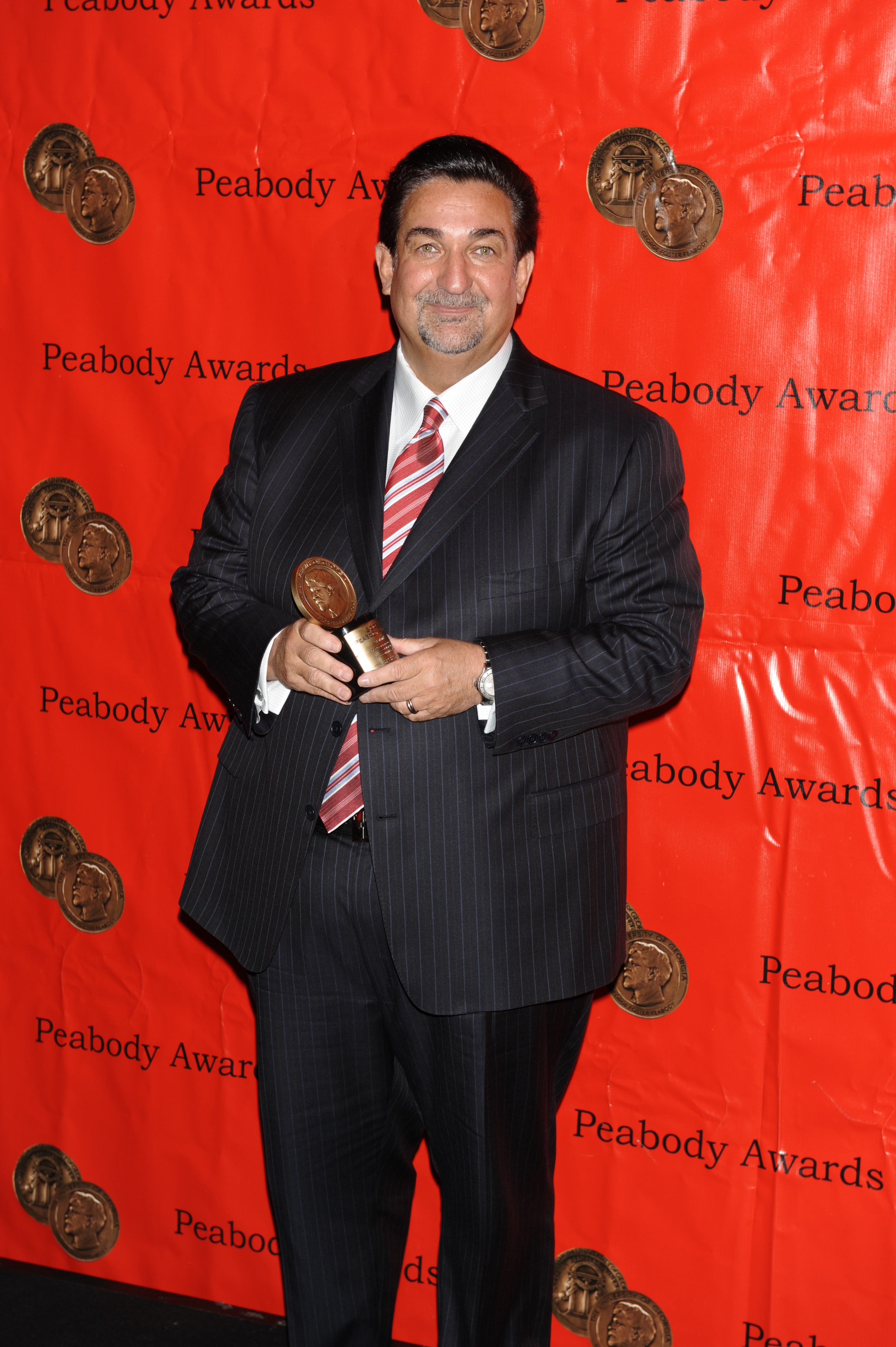 PHOTO CREDIT: ANDERS KRUSBERG / PEABODY AWARDS Ted Leonsis 68th Annual Peabody Awards Luncheon Waldorf=Astoria Hotel New York, NY USA May 18, 2009